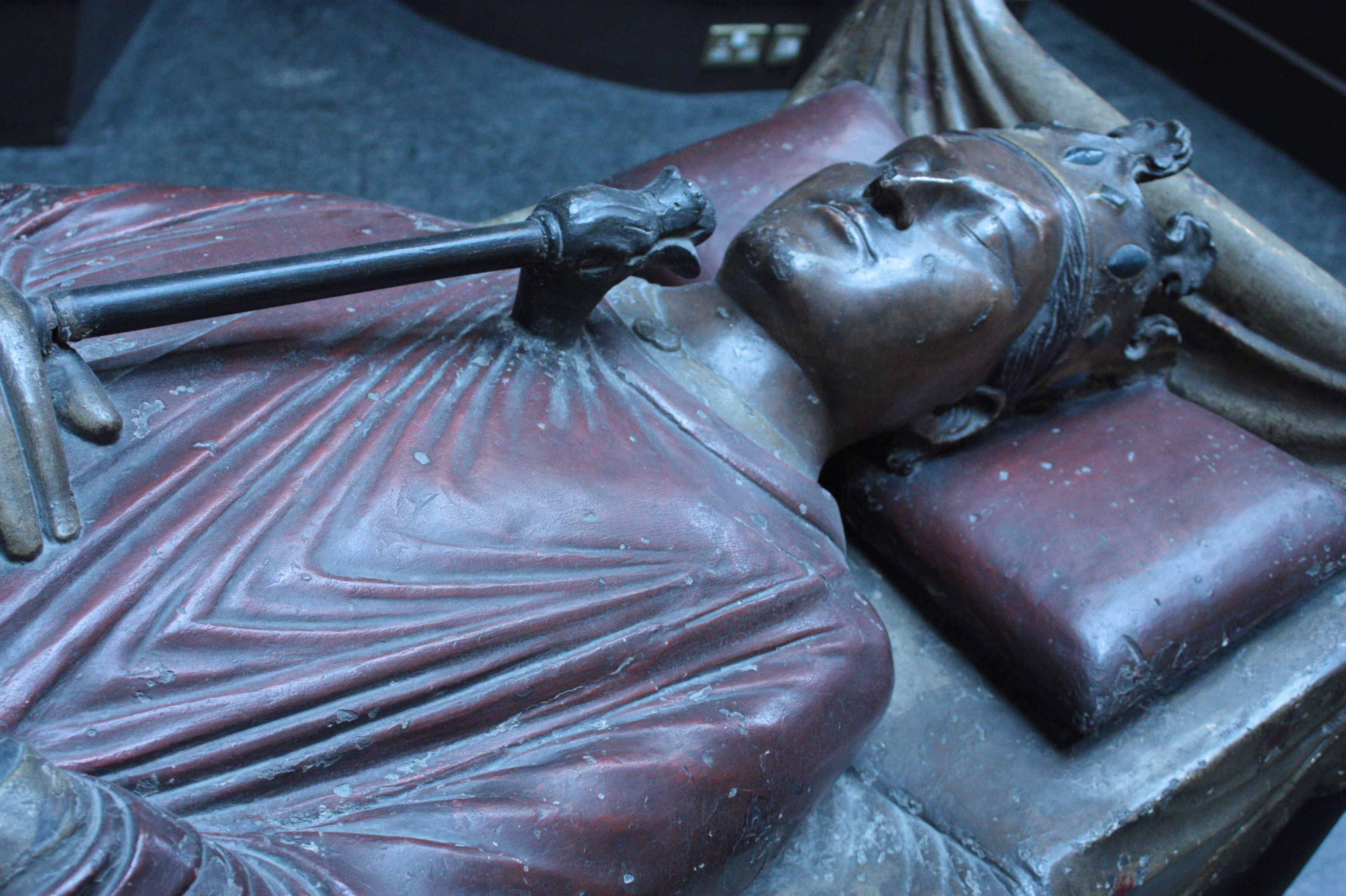 Plaster cast of the effigy of Henry II, Victoria and Albert Museum, London